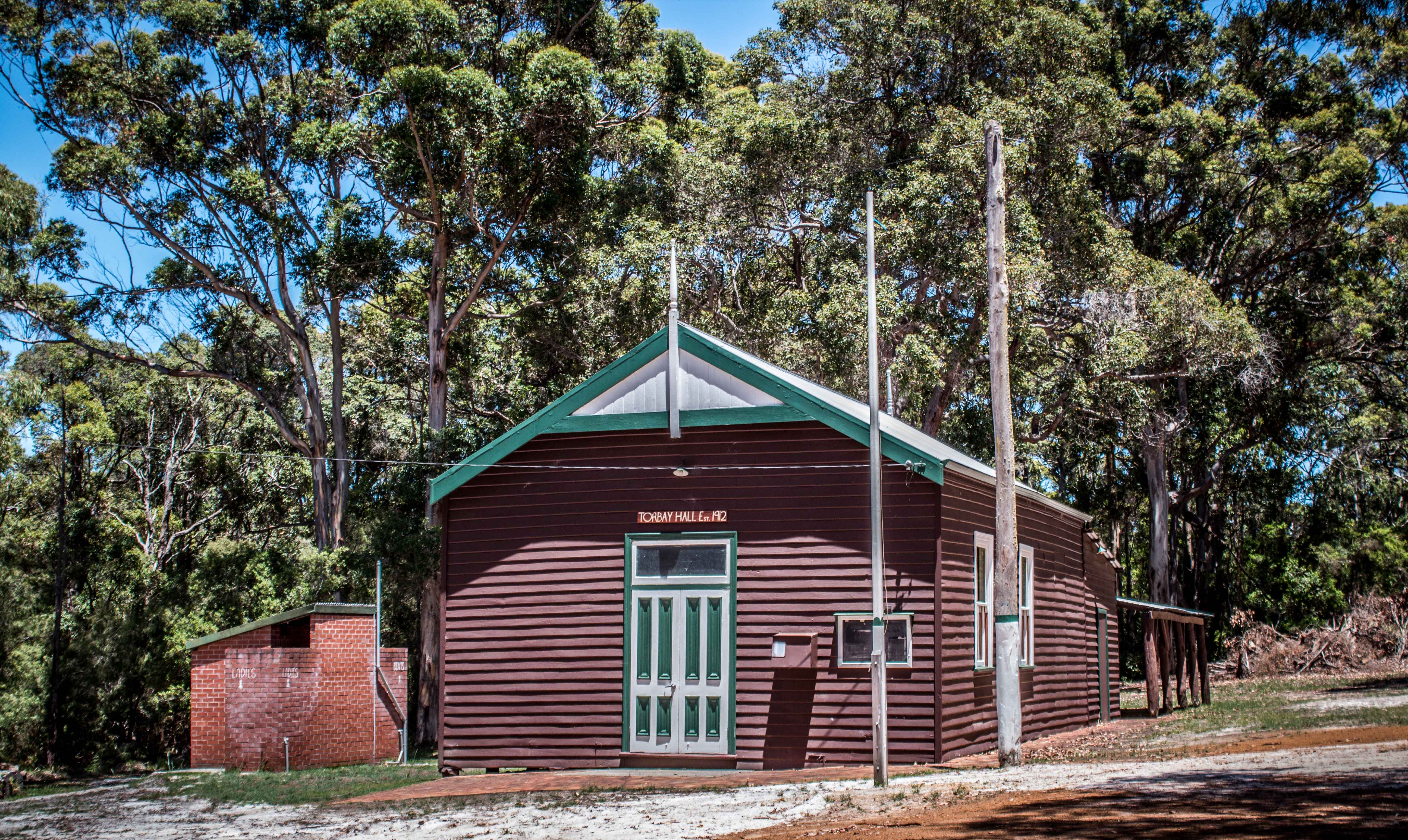 Picture of the Torbay Hall